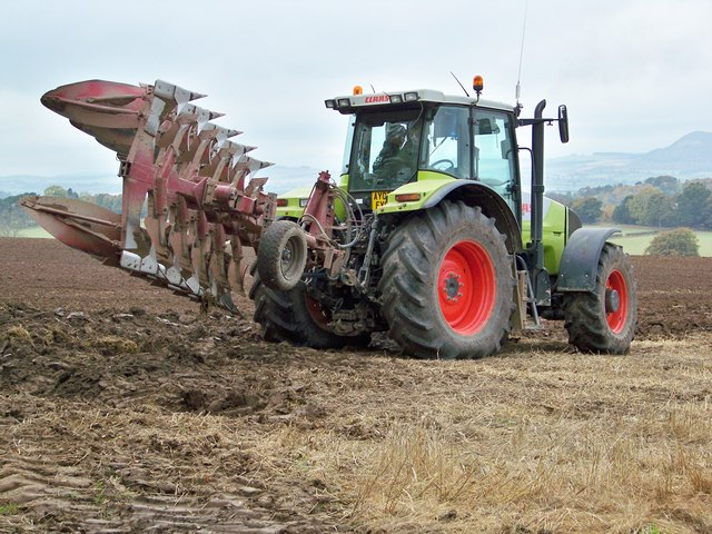 Claas tractor with a Kverneland five furrow plough on a field near to Fairnington, Scottish Borders, Great Britain. Getting closer to the field boundary in farmland near Muirhouselaw.